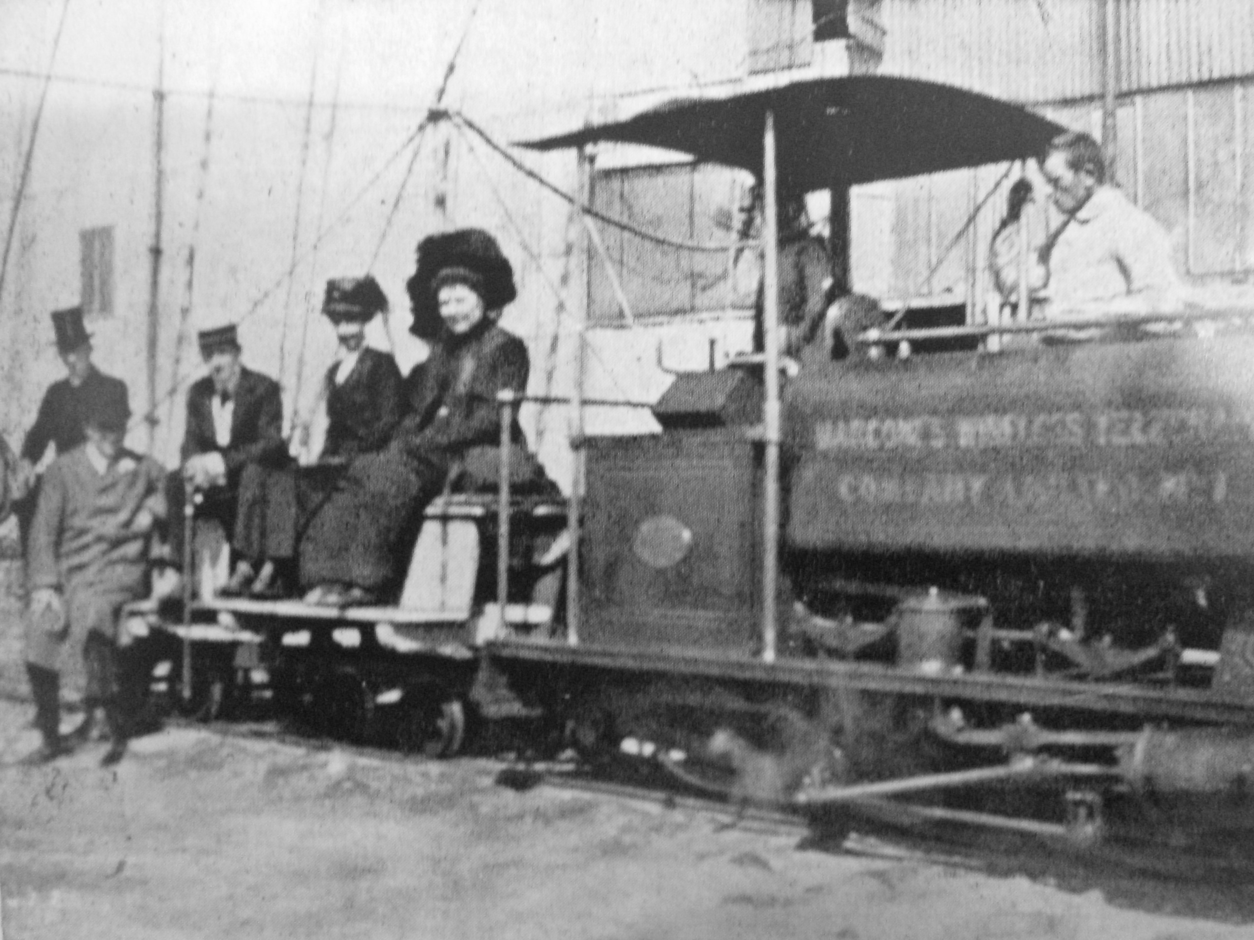 Marconi Wireless railway, Clifden - The vice regal special at Clifden, Co. Galway, visiting the newly built wireless station ca 1907